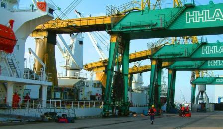 Unloading of a reefer vessel with elevator